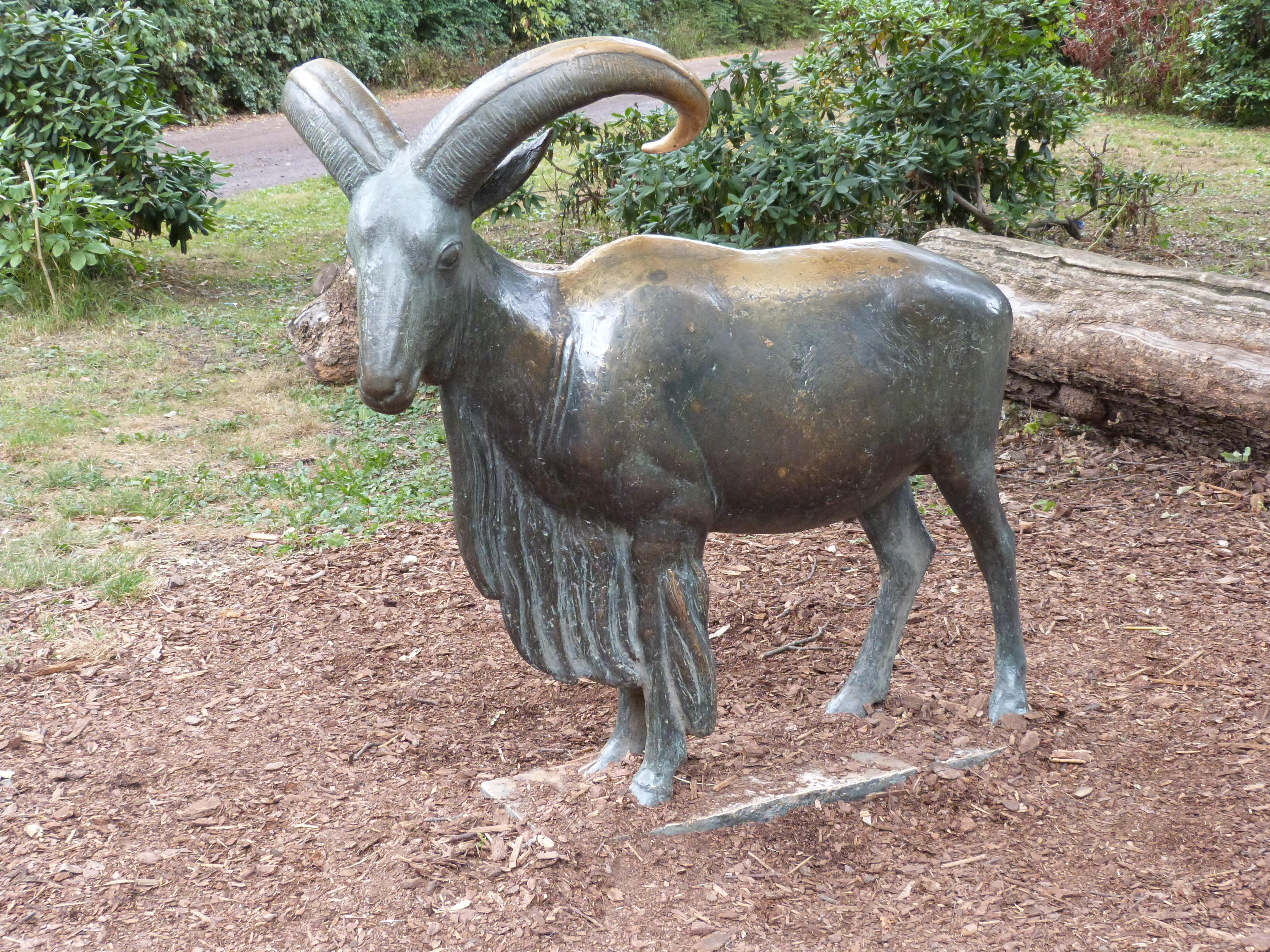 Sculpture of a Barbary sheep in Magdeburg zoo